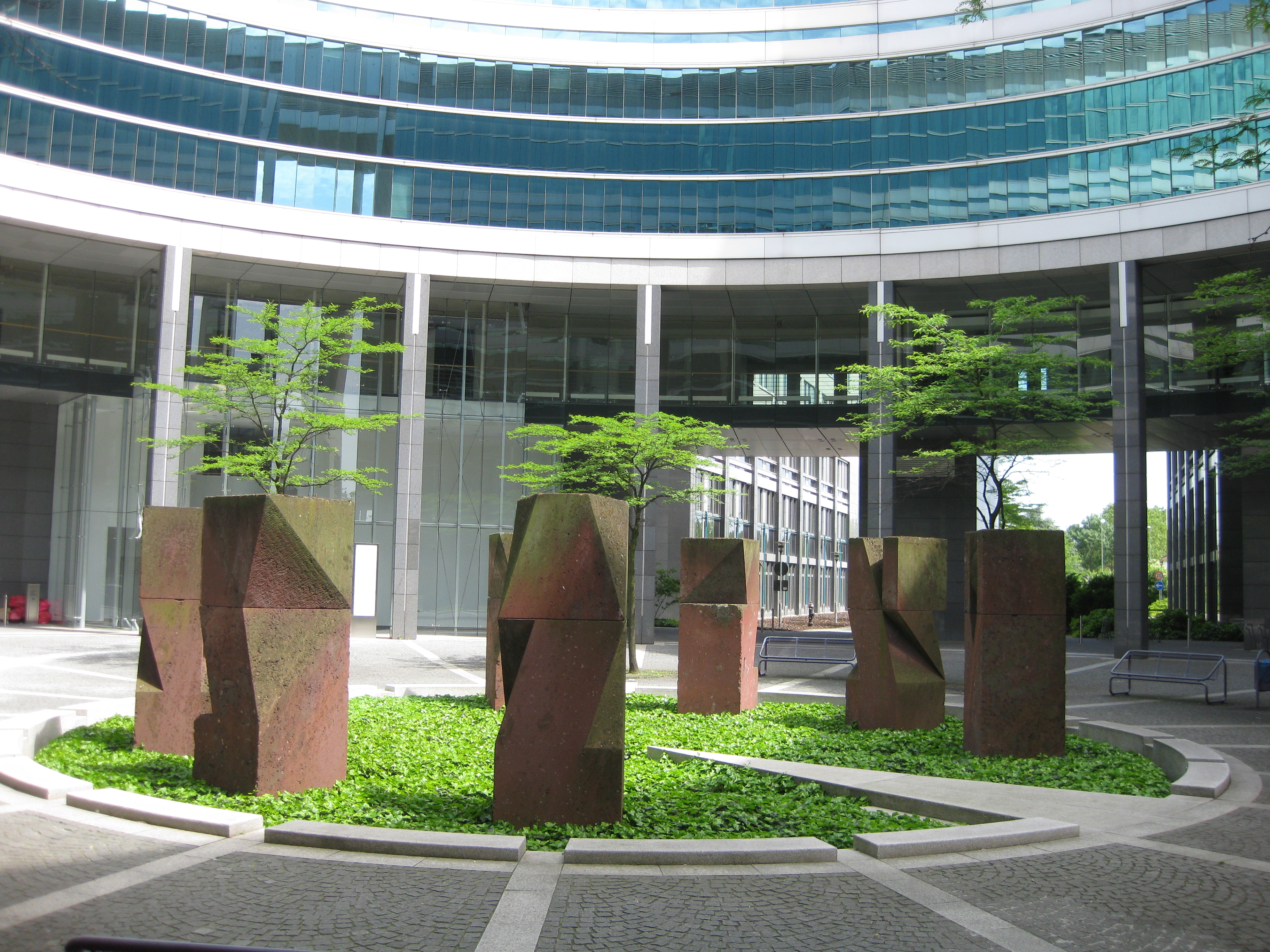 Art at the Omega-Haus, Offenbach-Kaiserlei